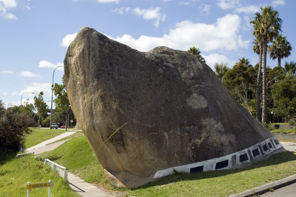 Dog Rock, made of granite, in Albany, Western Australia.